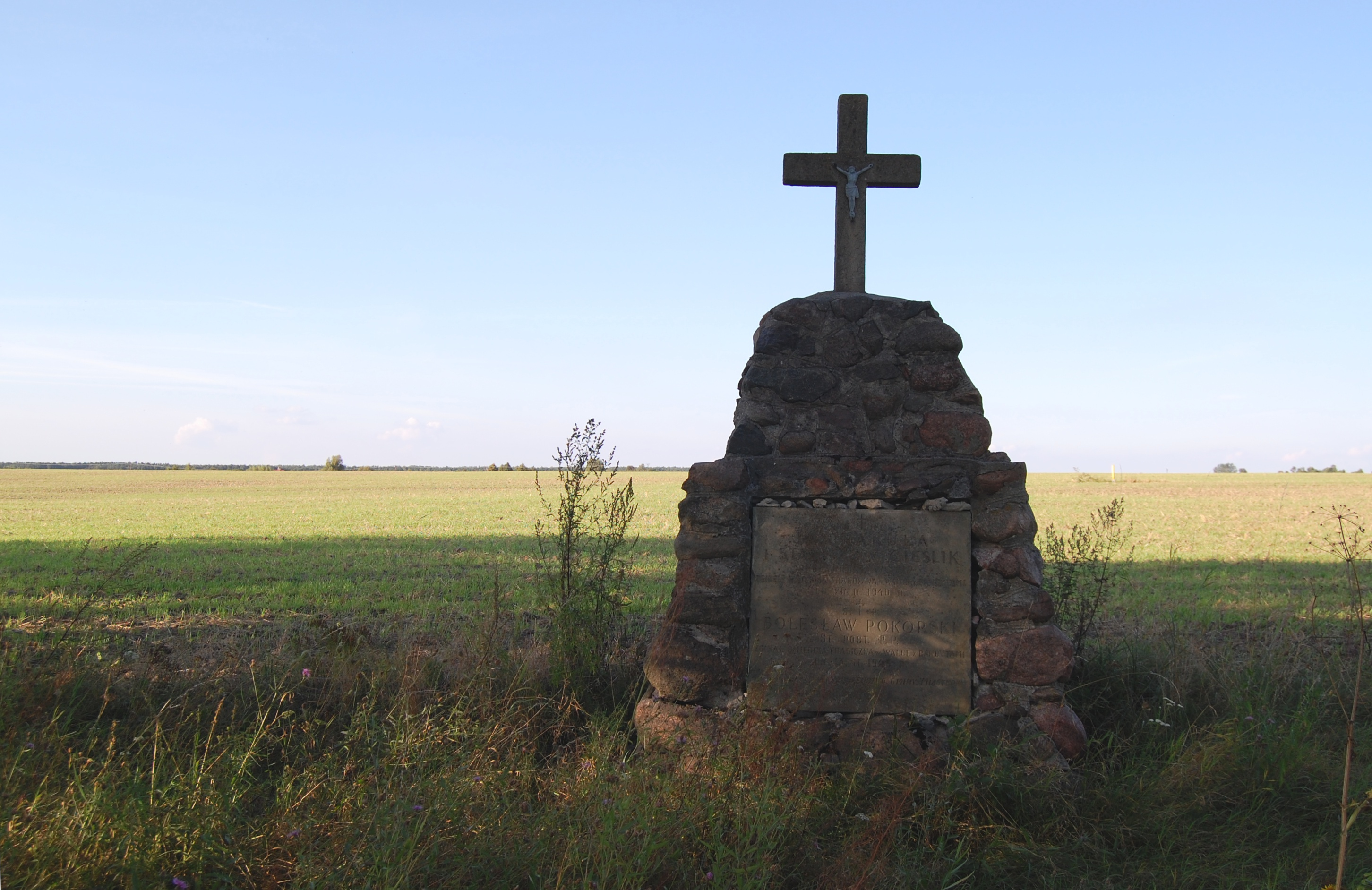 Monument commemorating two policemans of Blue Police whom died fighting with meat traders during WWII. It is a rare and controversial example of monument built to persons collaborating with the Nazi Germany.